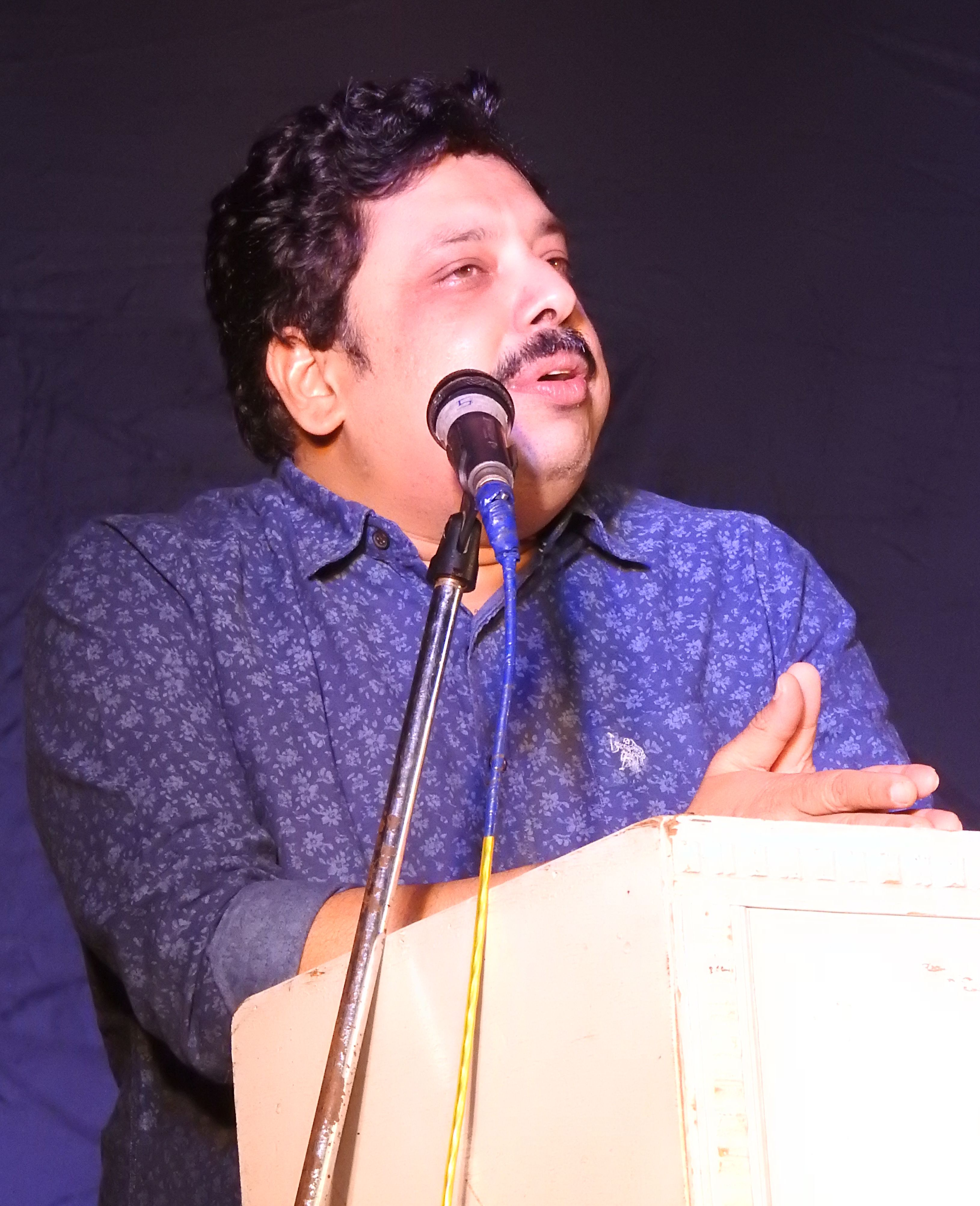 Anand Neelakantan, 2018